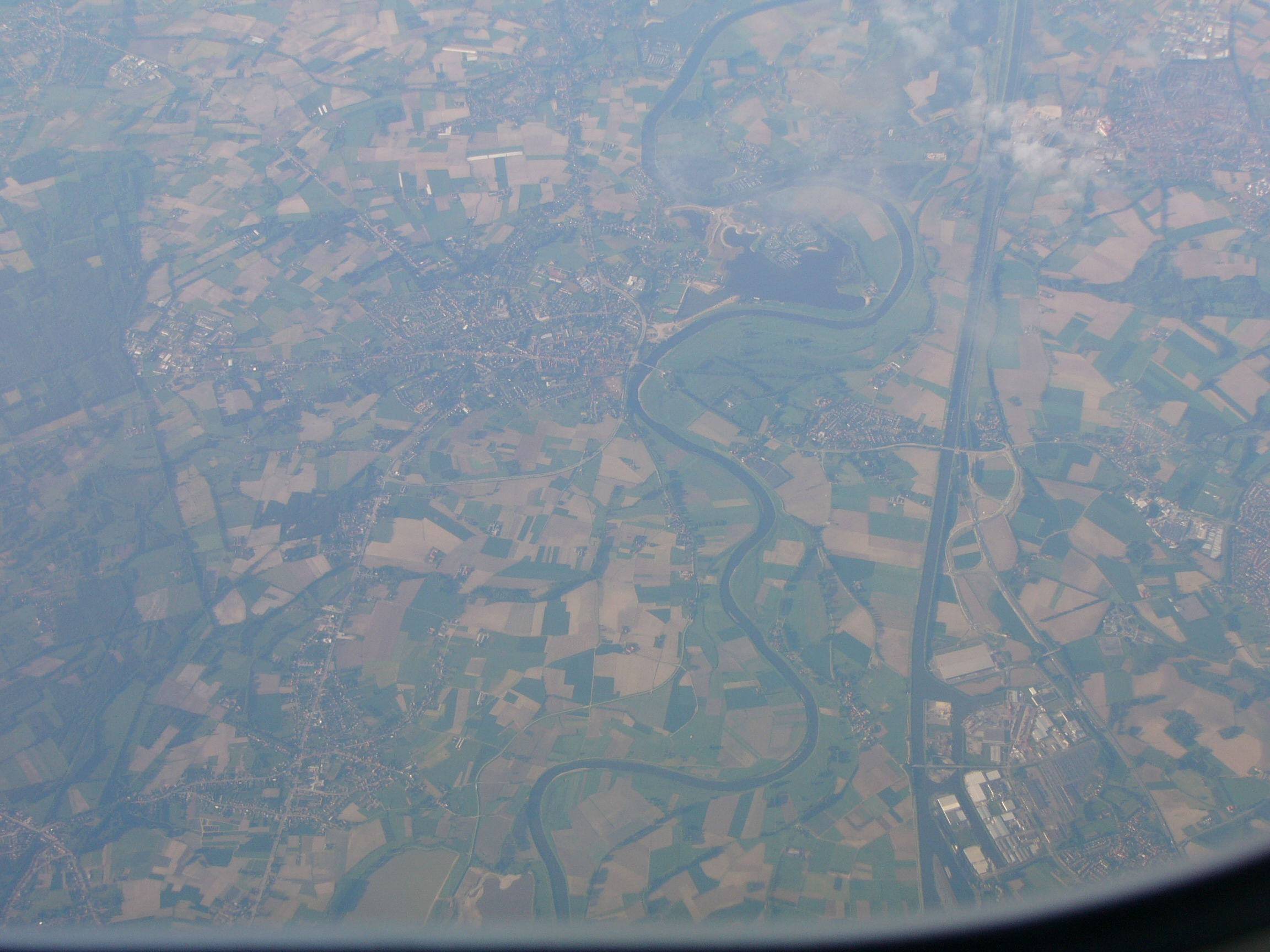 Photo of Maaseik and Elen, taken from an airplane